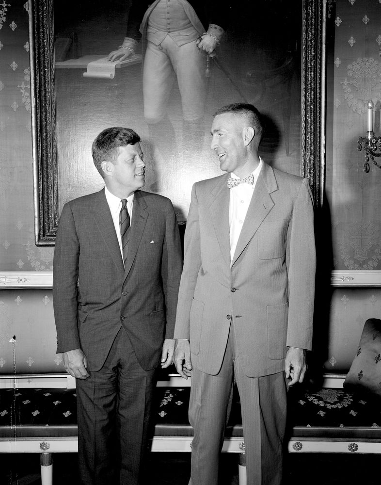 Congressional Coffee Hour (House of Representatives). President John F. Kennedy with Congressman Morris K. Udall (Arizona). Blue Room, White House, Washington, D.C.